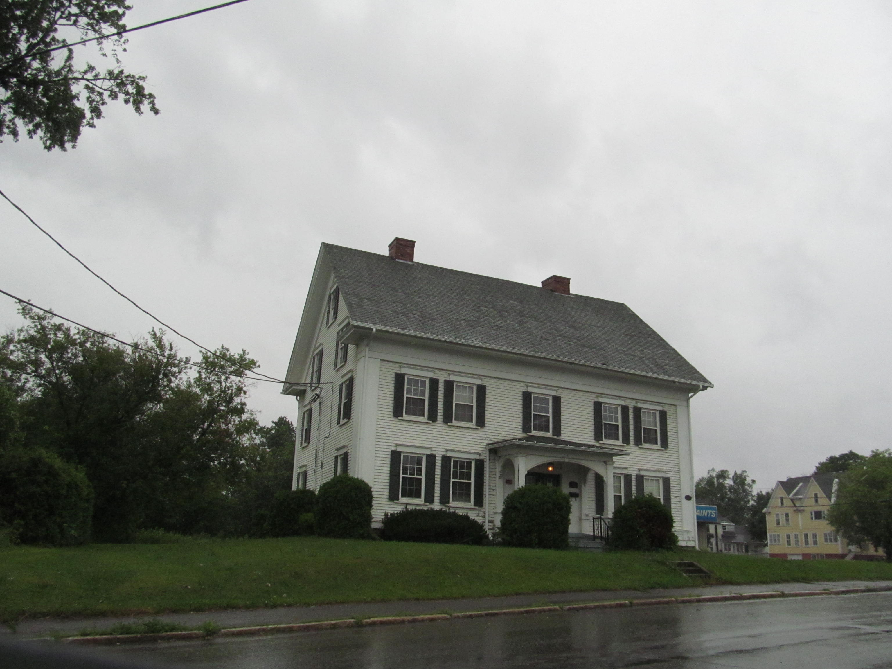 Blackhawk Putnam Tavern, Houlton, Maine.